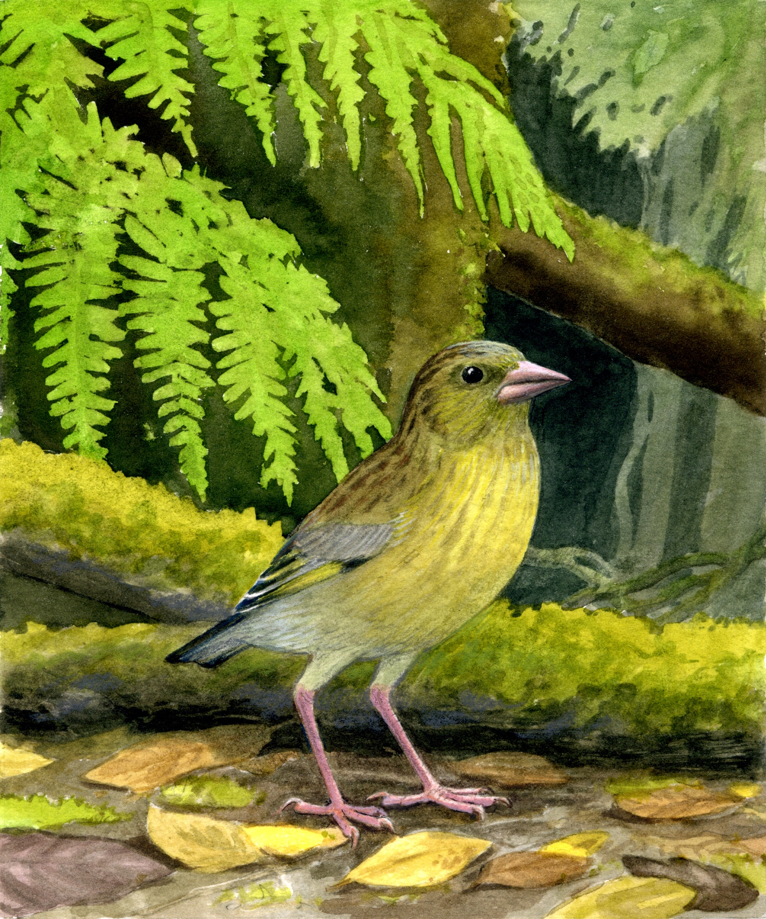 Reconstruction of Carduelis aurelioi n. sp. (slender-billed greenfinch) at laurel forest, art by A. Bonner.